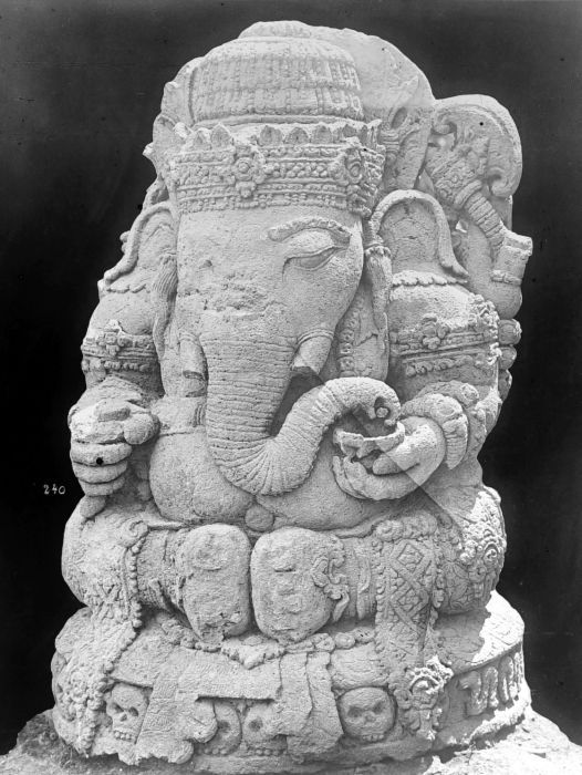 Ganesha sculpture from Blitar